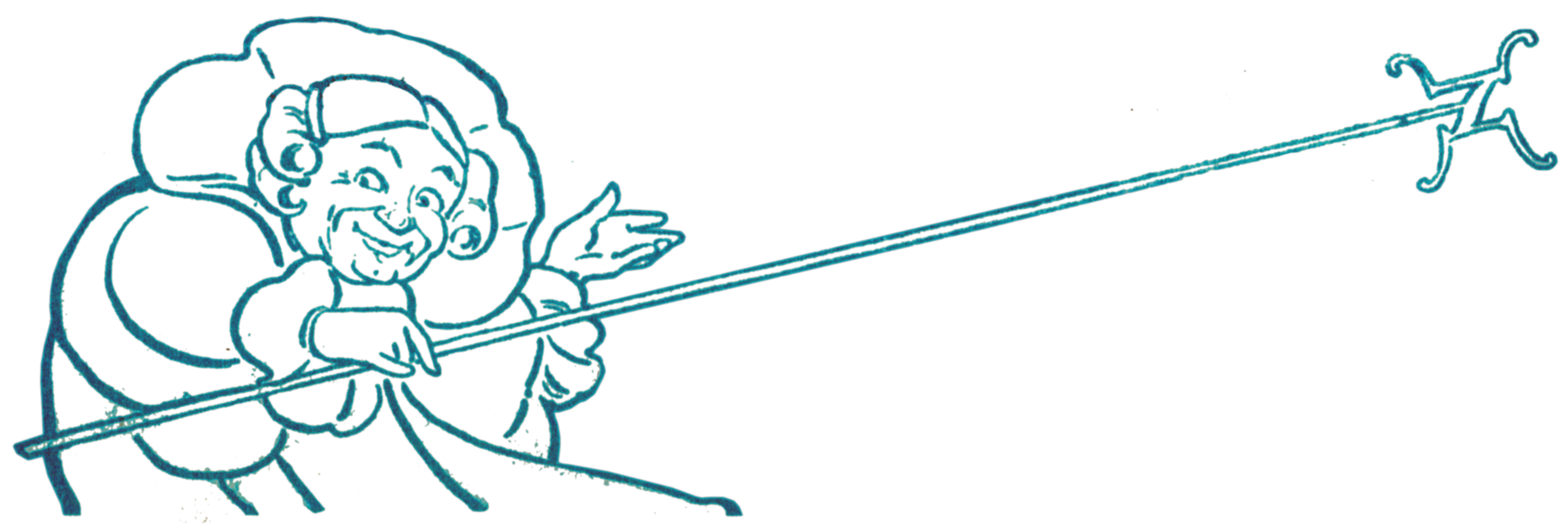 The Good Witch of the North as pictured in The Wonderful Wizard of Oz by L. Frank Baum